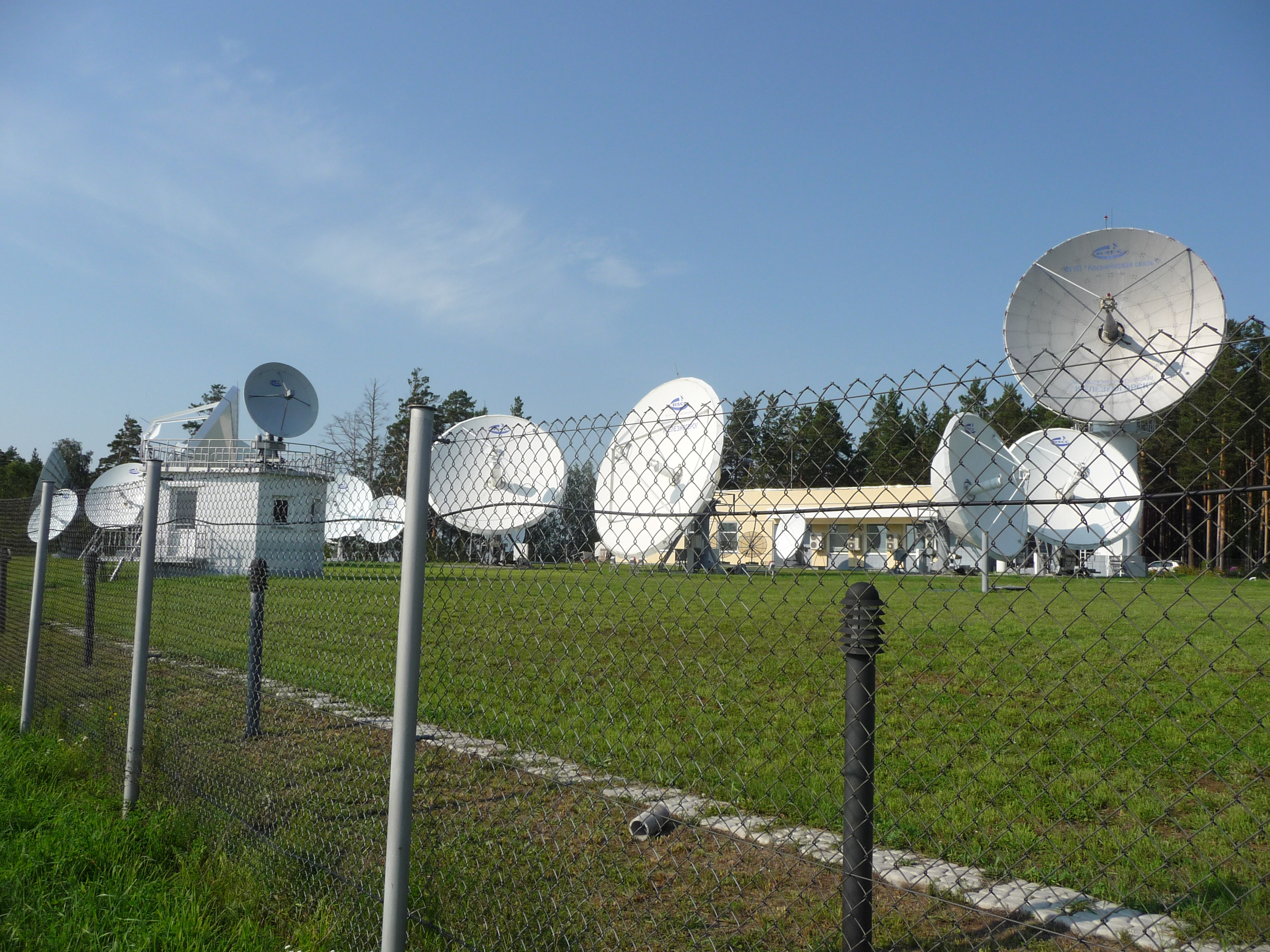 Satellite Communications Center "Zheleznogorsk" of Russian Satellite Communications Company at Zheleznogorsk, Krasnoyarsk Krai in Russia